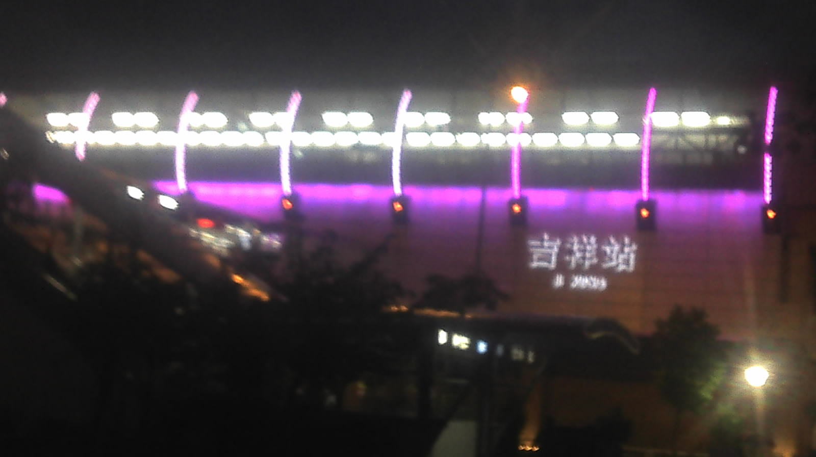 This photo was taken at September 30, 2011, at Jixiang Station.